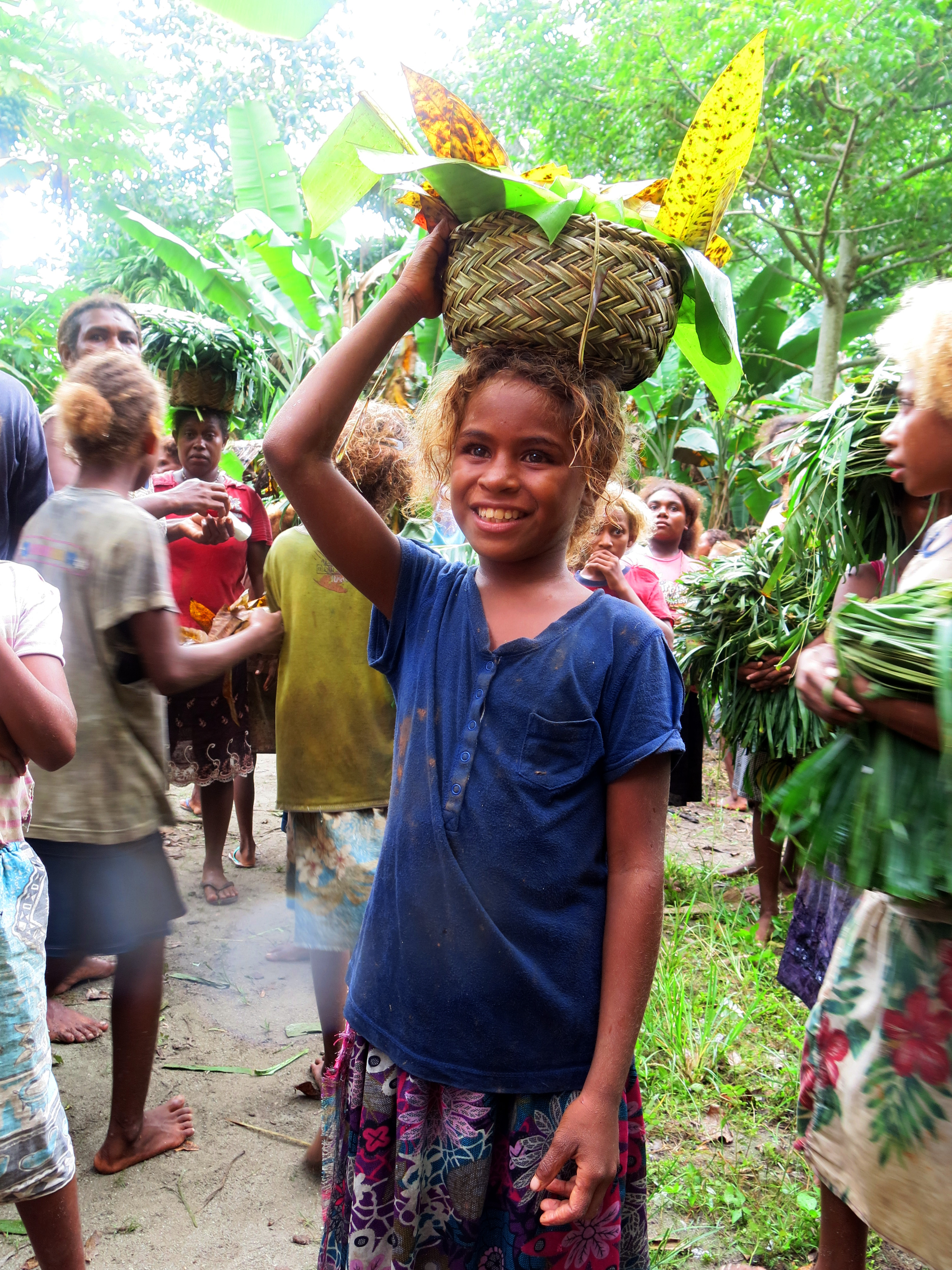 A young girl (around 13 years old) carries a basket on her head filled with food.